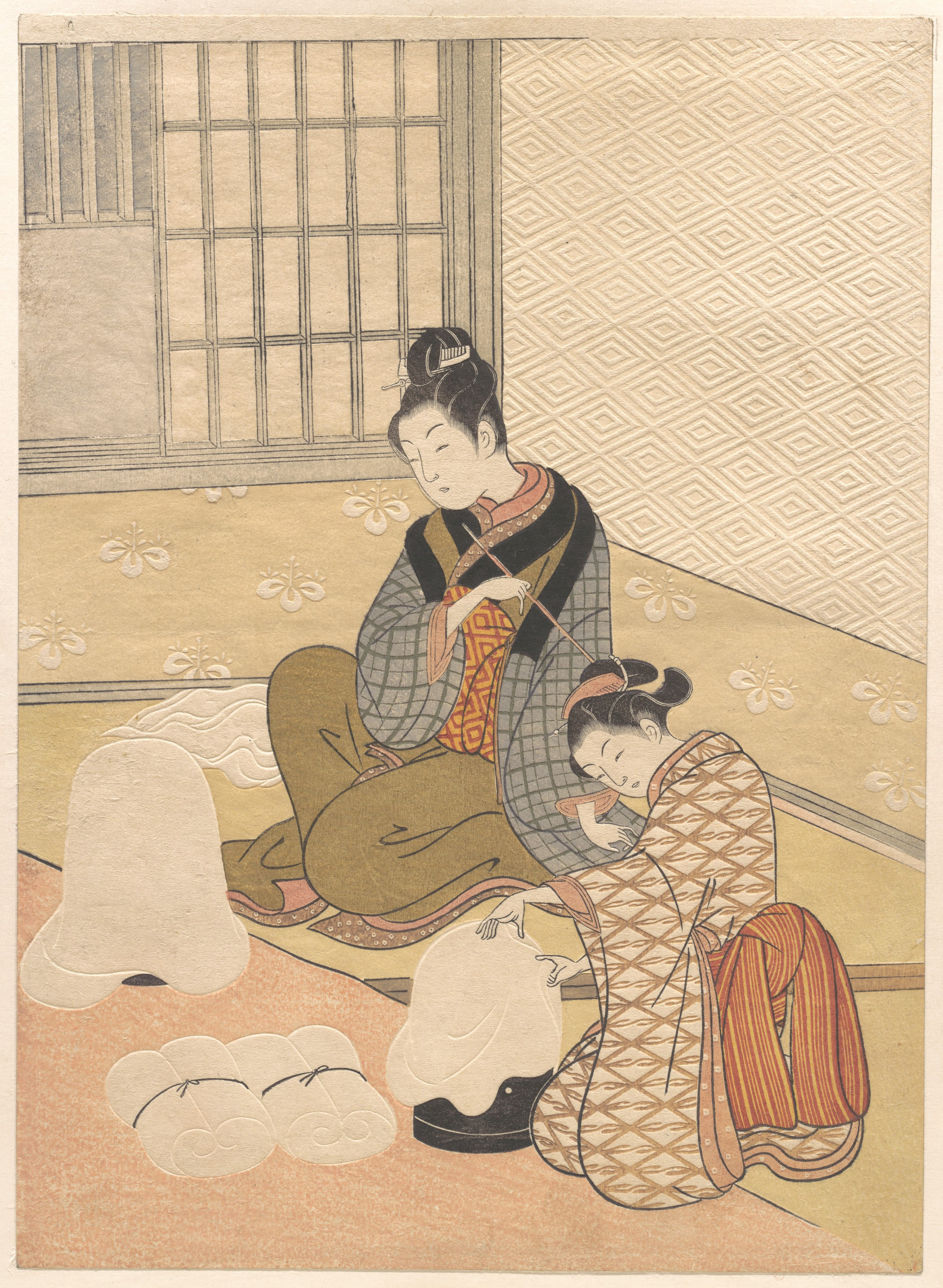 Ukiyo-e print by Japanese artist Suzuki Harunobu, featuring prominent embossed areas